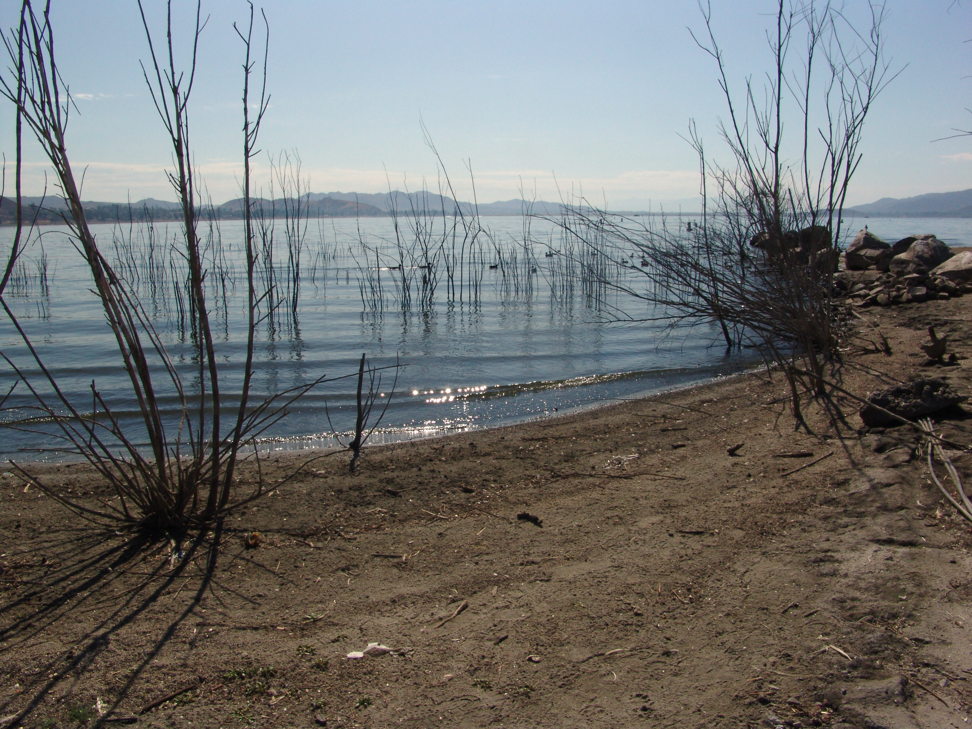 Shore of Lake Elsinore.